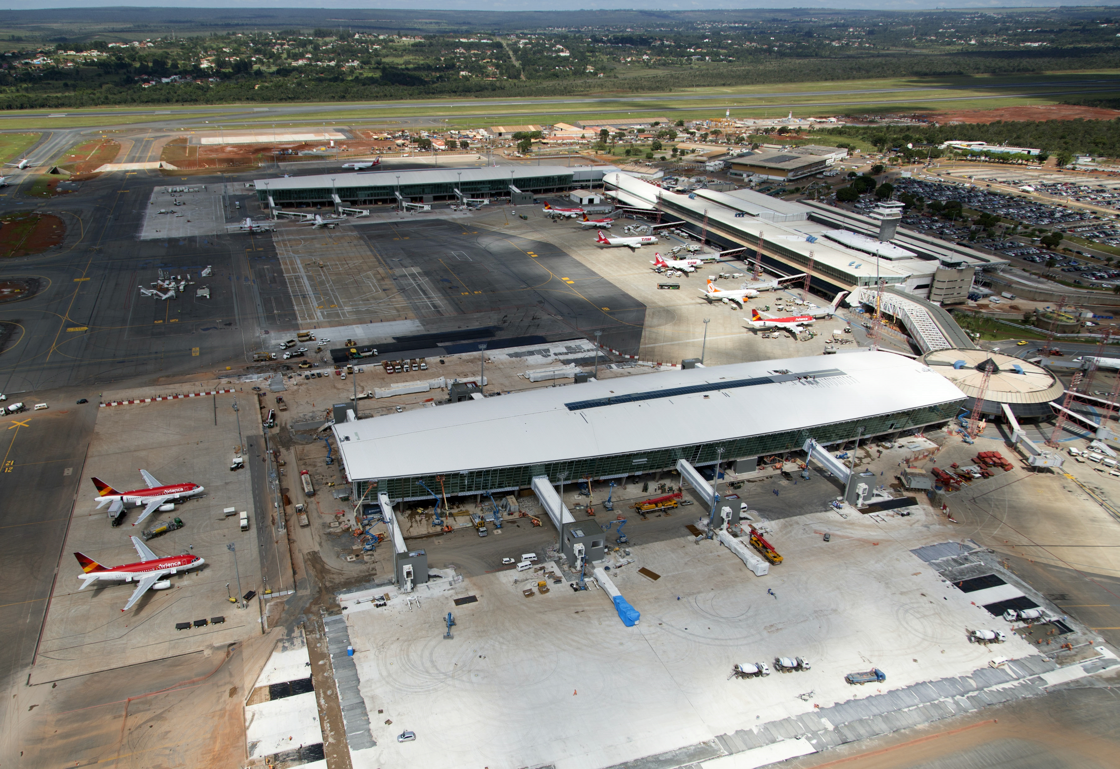 Vista aérea do Aeroporto Internacional de Brasília